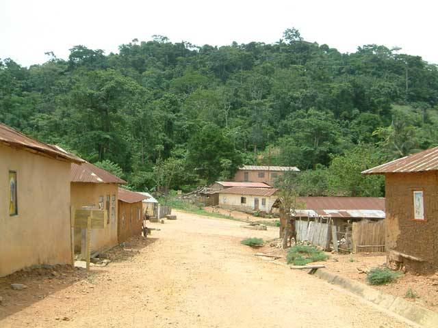 Village in the Plateaux Region in Togo